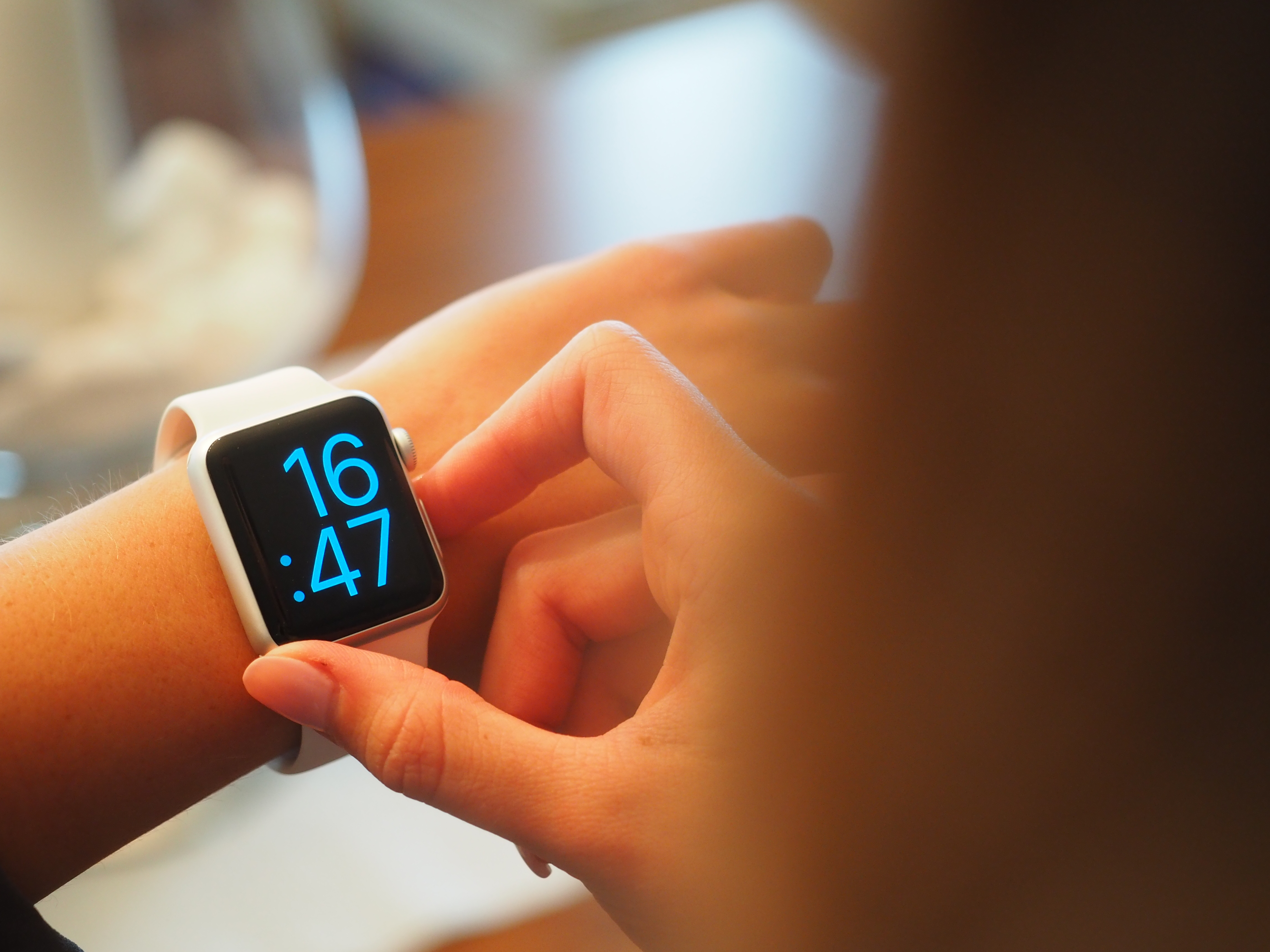 This is a smart watch on a girl's hand